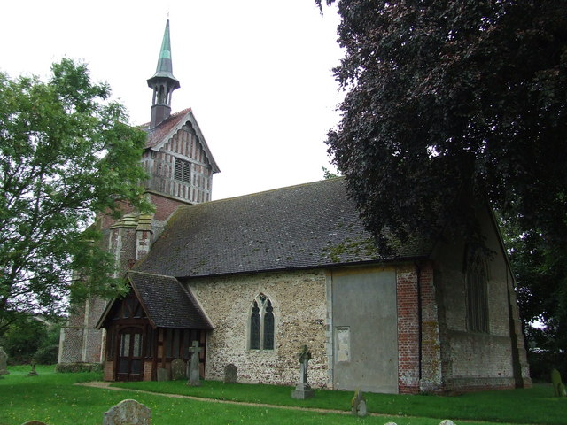 St Mary Swilland The church of St Mary, Swilland, Suffolk for more info